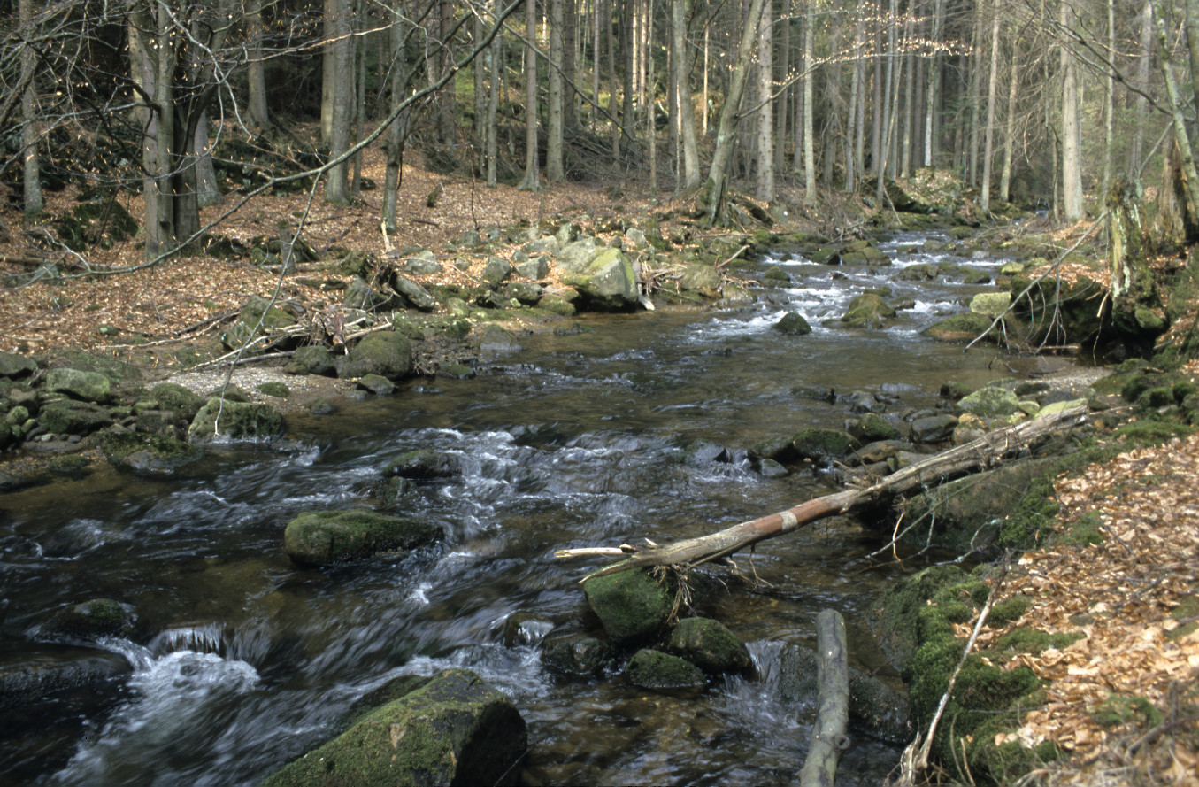 Bystrzyca river upstream Młoty village, Bystrzyckie Mts., Poland